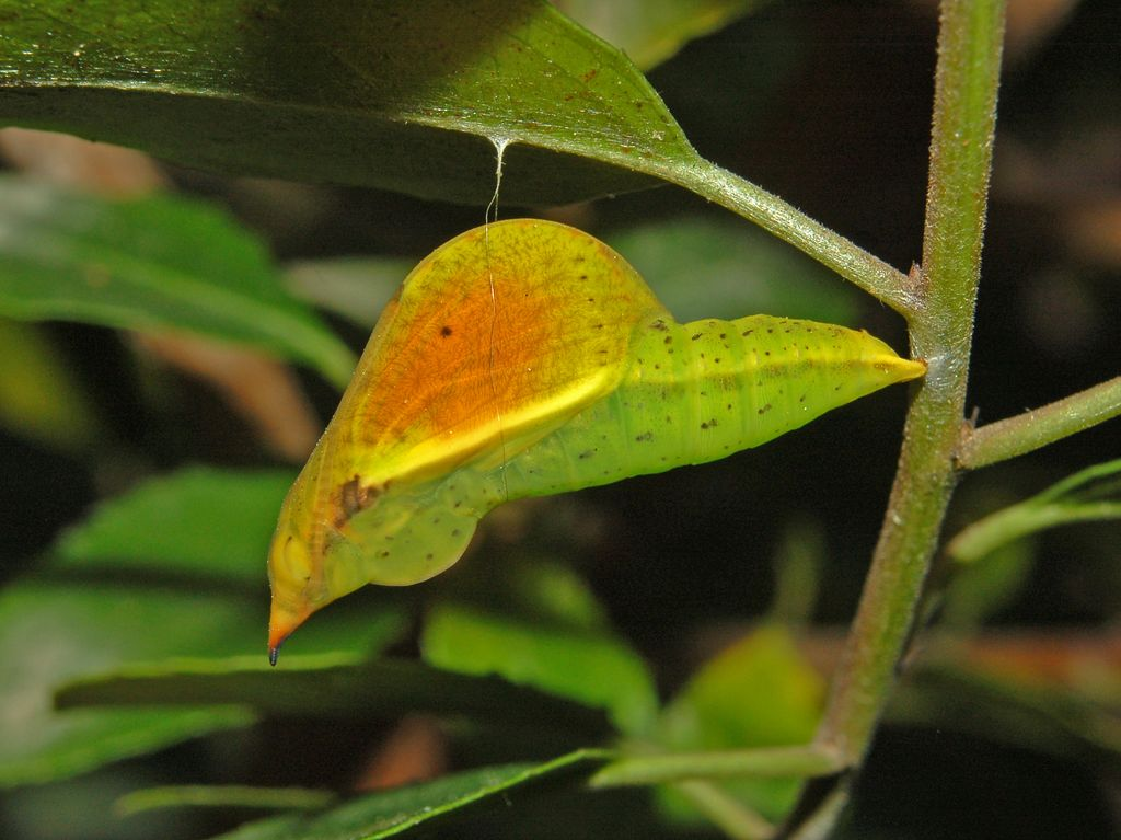 Pieridae - Gonepteryx cleopatra